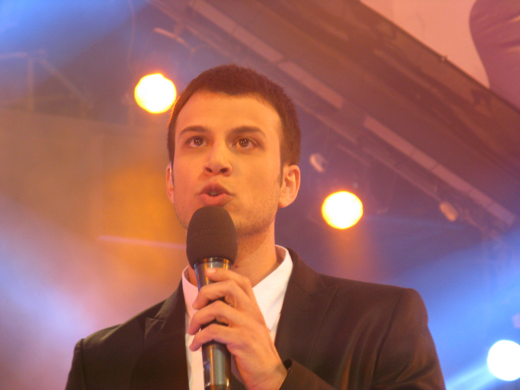 Assi Azar, presentor